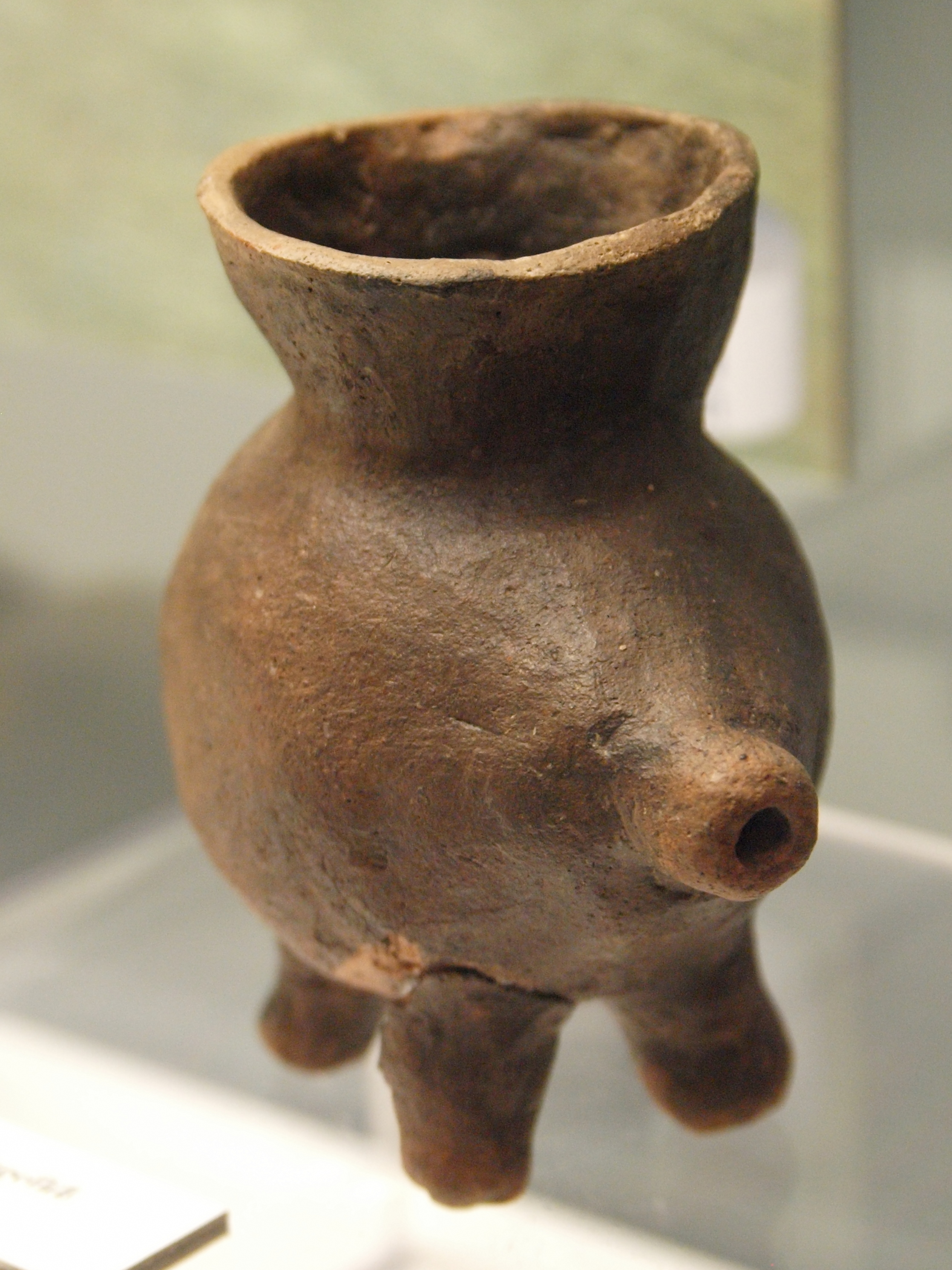 A animal shaped baby drinking vessle found in Regensburg-Harting, Bavaria, Germany. Dating to Late Bronze Age approx. 1350 to 800 BCE.